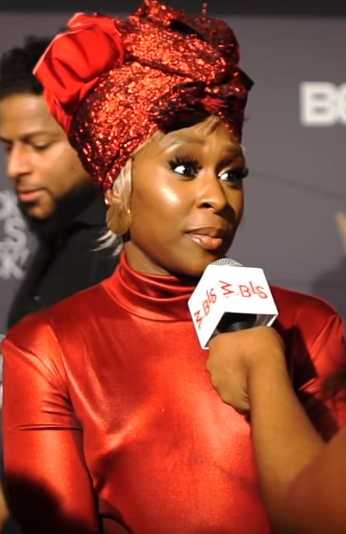 Cynthia Erivo at the Black Girls Rock red carpet in 2018